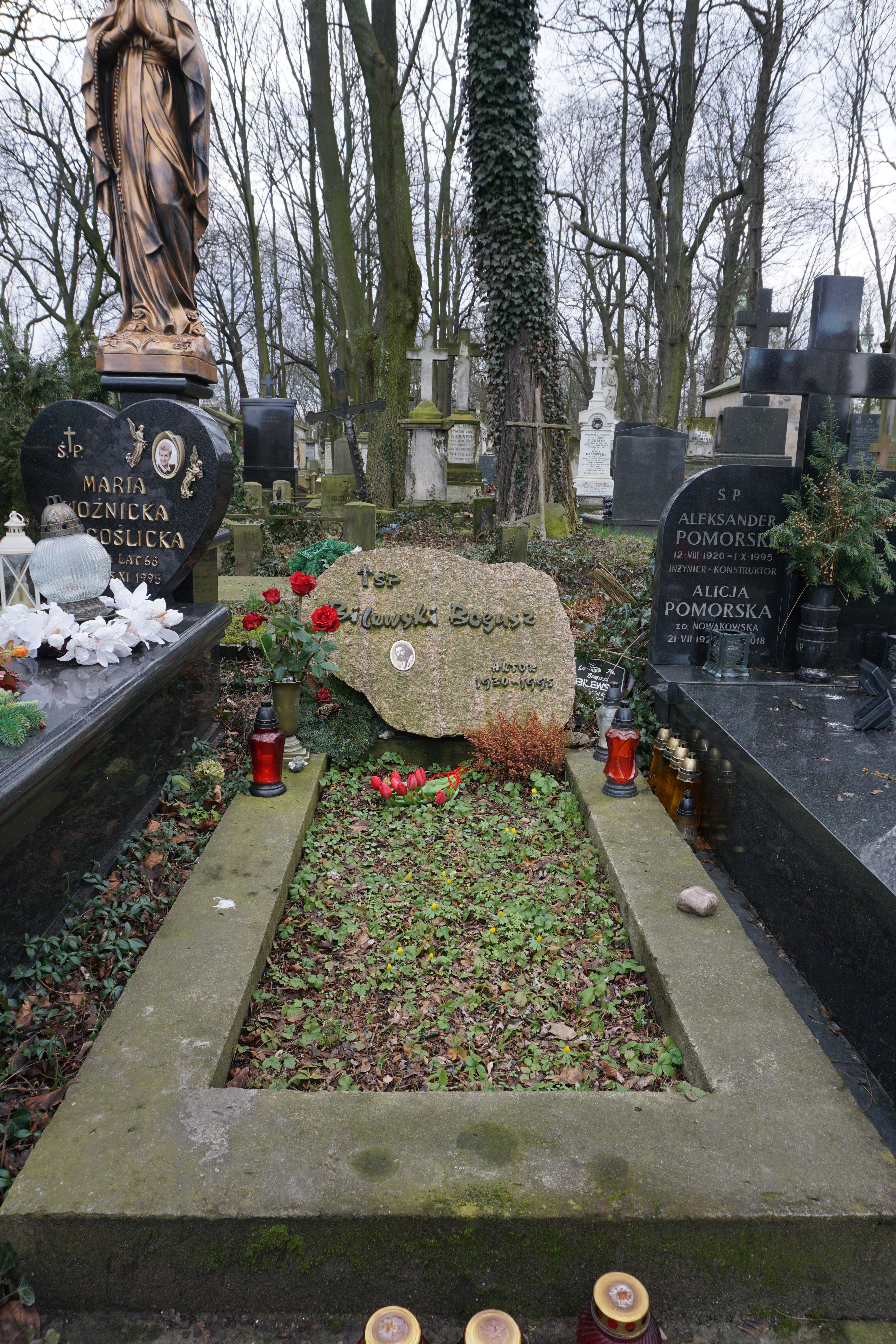 The grave of Bogusz Bilewski at the Powązki Cemetery (section 157, row 3, grave 18)